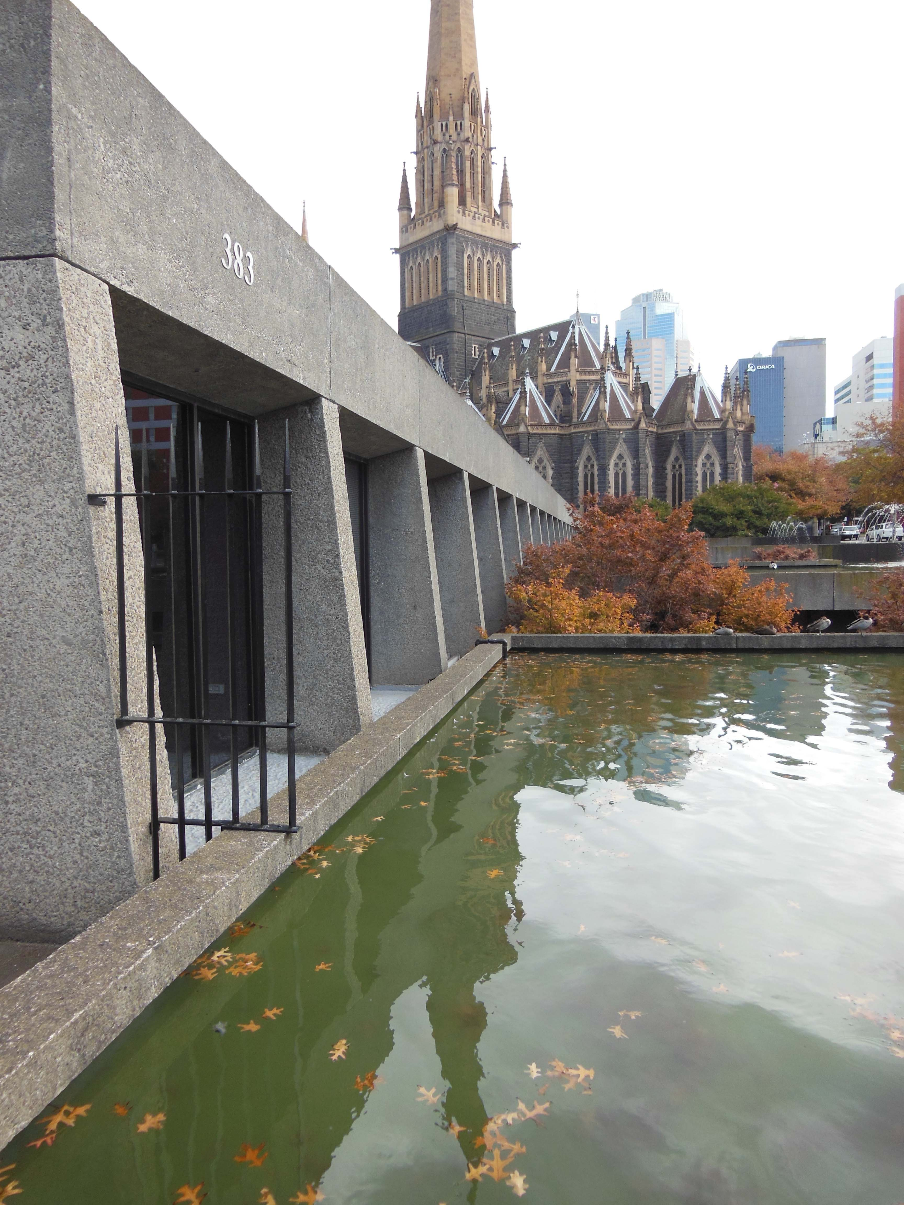 Cardinal Knox Centre exterior view